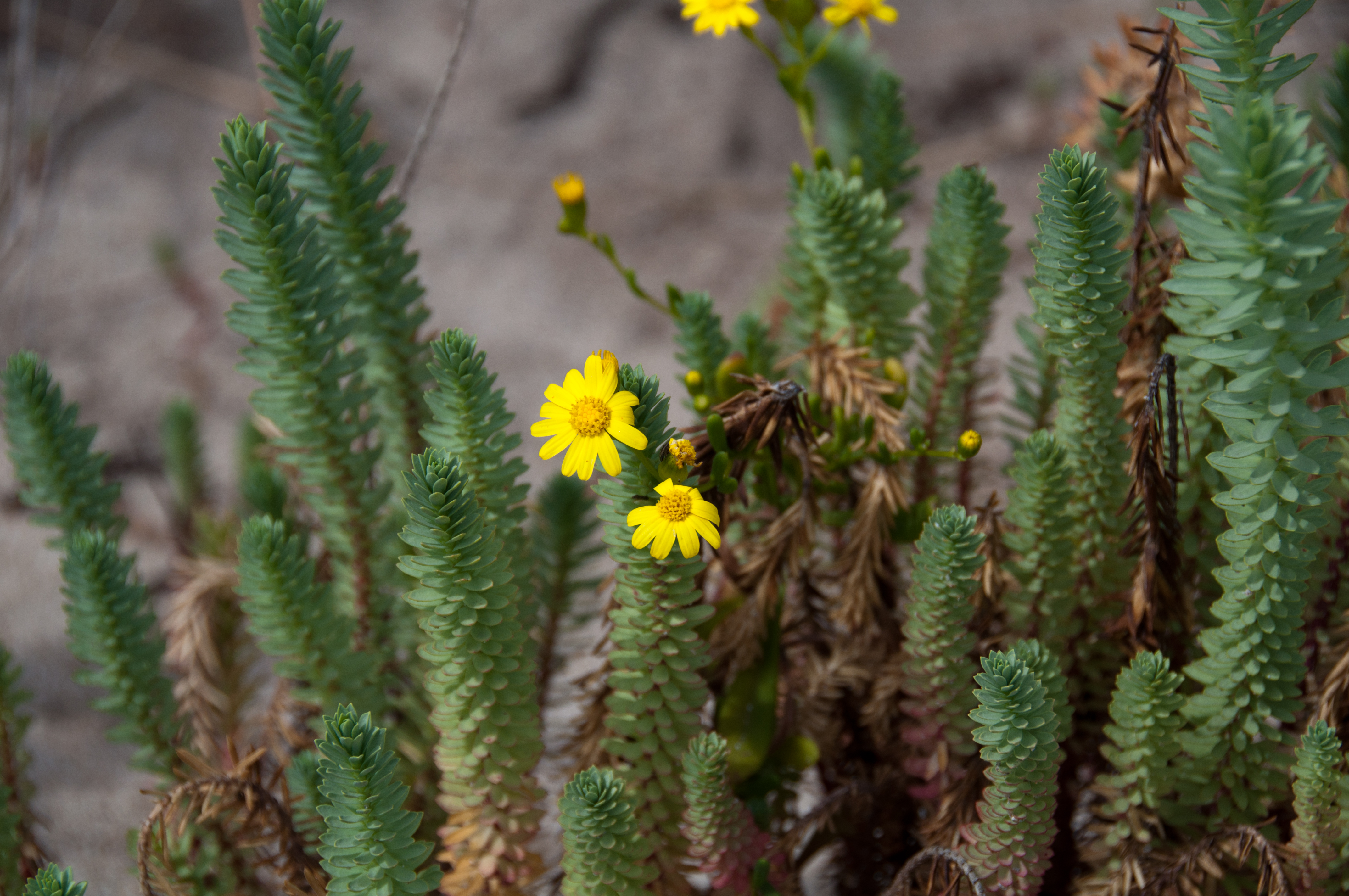 amid other vegetation